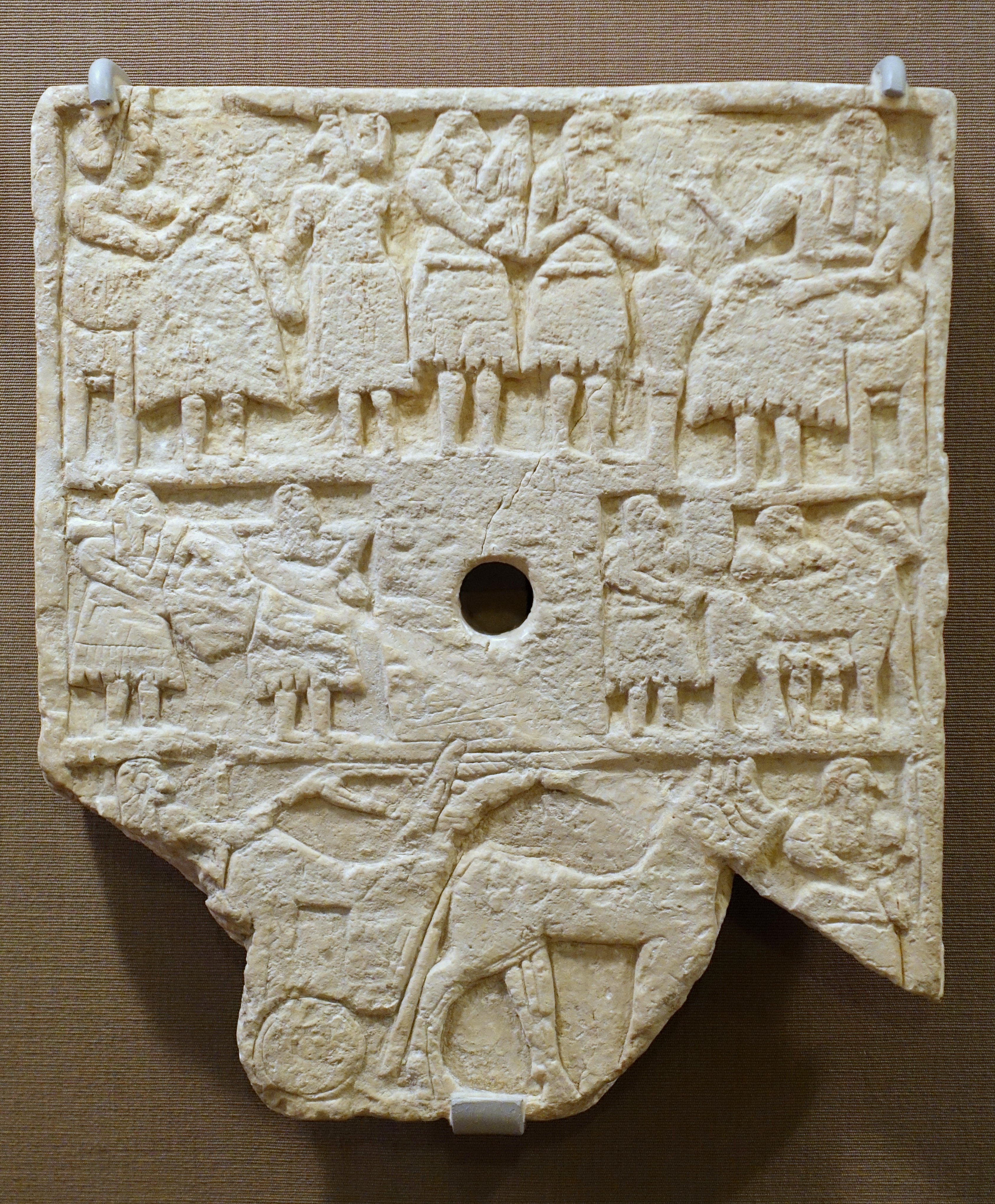 Exhibit in the Oriental Institute Museum, University of Chicago, Chicago, Illinois, USA. This work is old enough so that it is in the public domain.